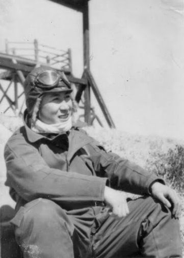 Seizō Yasunori, Japanese pilot, during WWII.